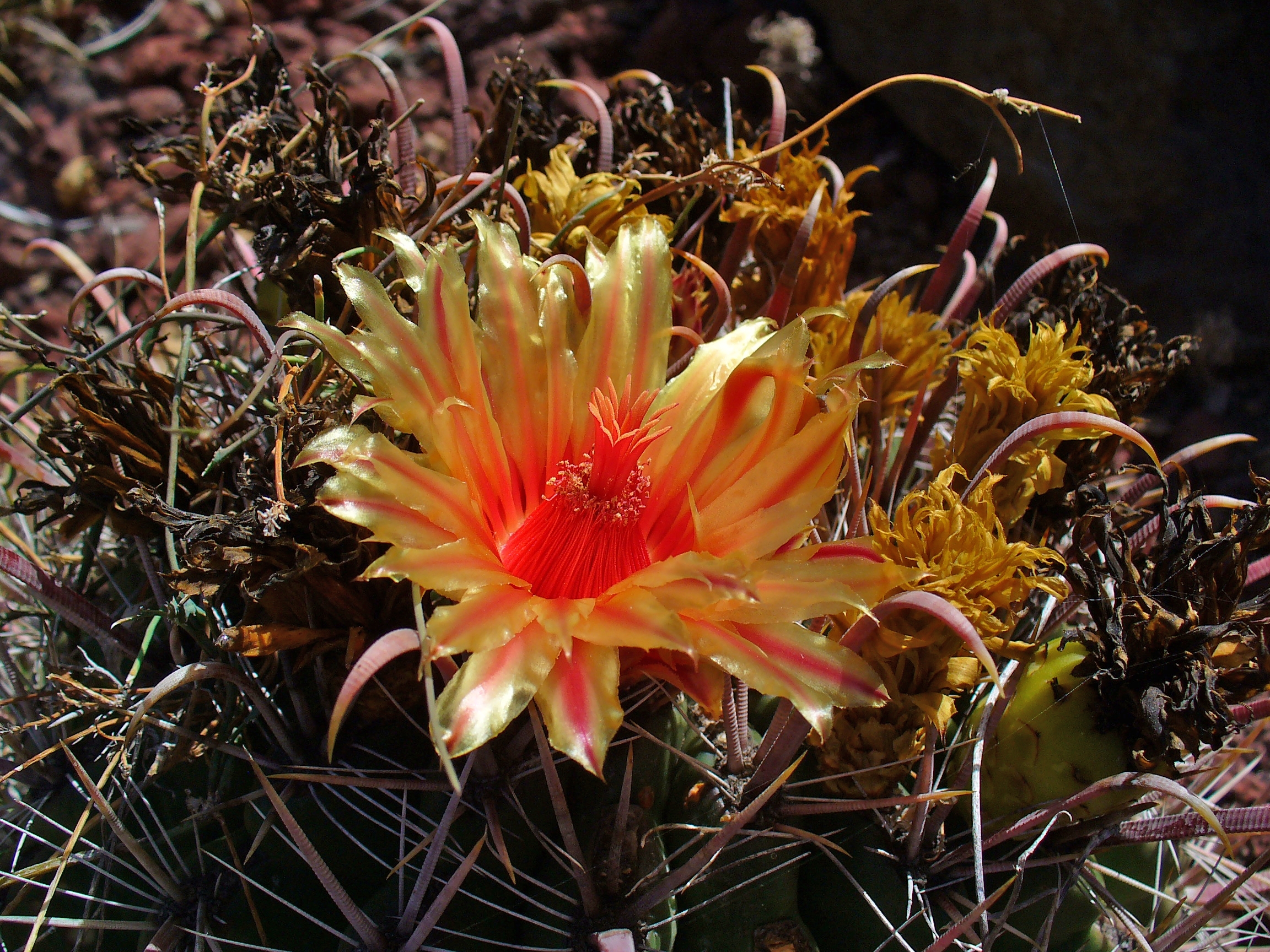 Flower; Cactualdea, Tocodoman, Gran Canaria, Spain.